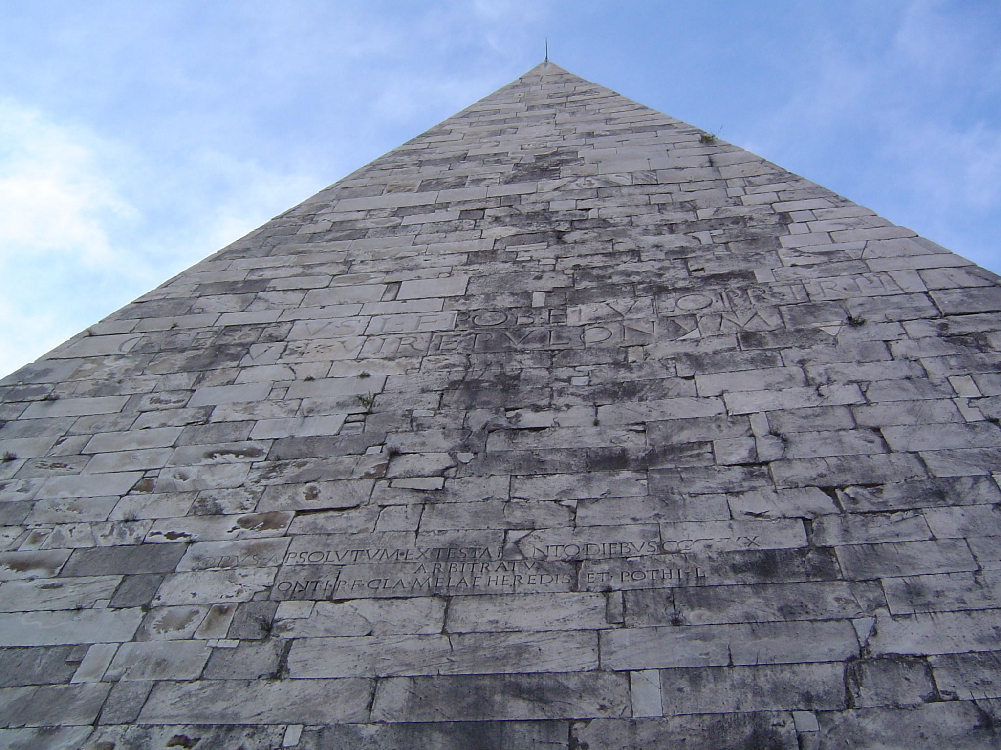 The epitaph for Caius Cestius, inscribed along the Pyramid of Caius Caestius in Rome, Italy. Made by Joris van Rooden, the Netherlands on 03-01-2006..